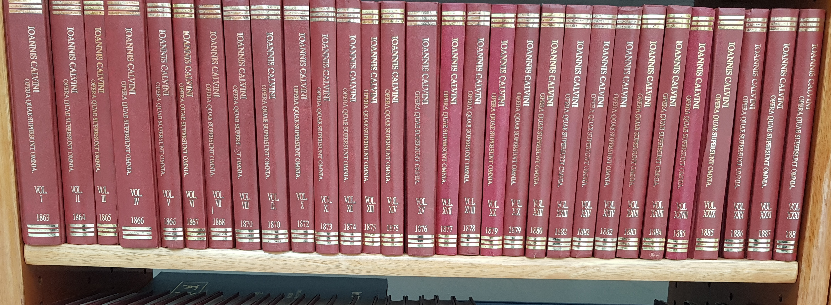 Writings of Calvin